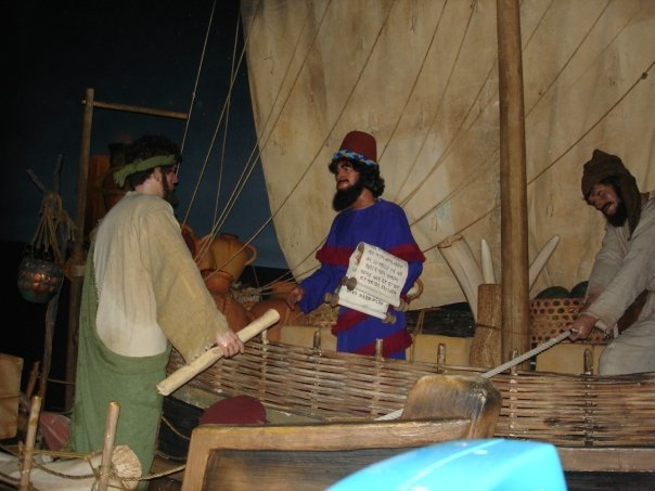 Phoenicians exhibit as part of Spaceship Earth at Walt Disney World's EPCOT park